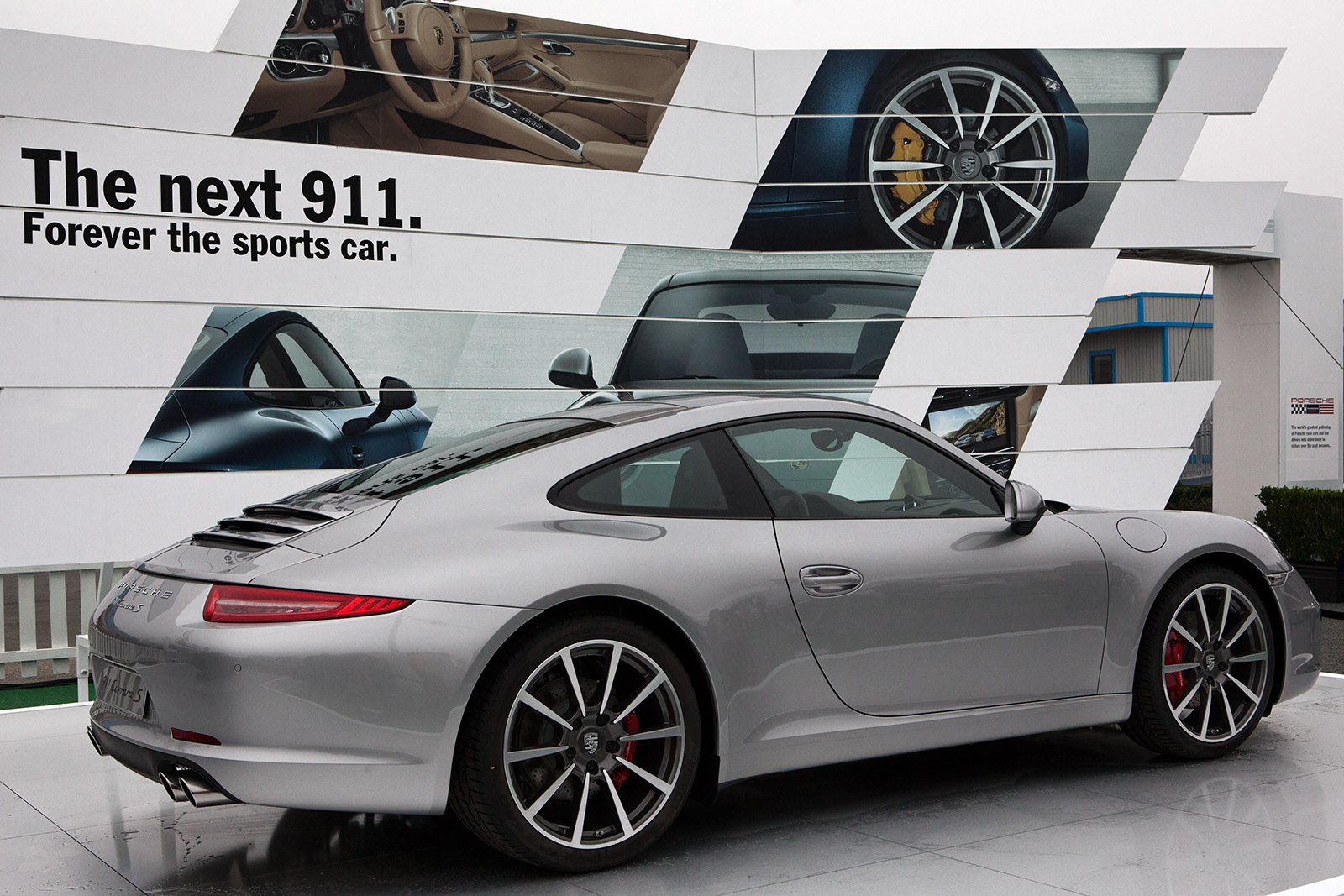 The new Porsche 991 Carrera S in silver paintwork at the Mazda Raceway Laguna Seca during the Porsche Rennsport Reunion IV.Porsche Rennsport Reunion IV